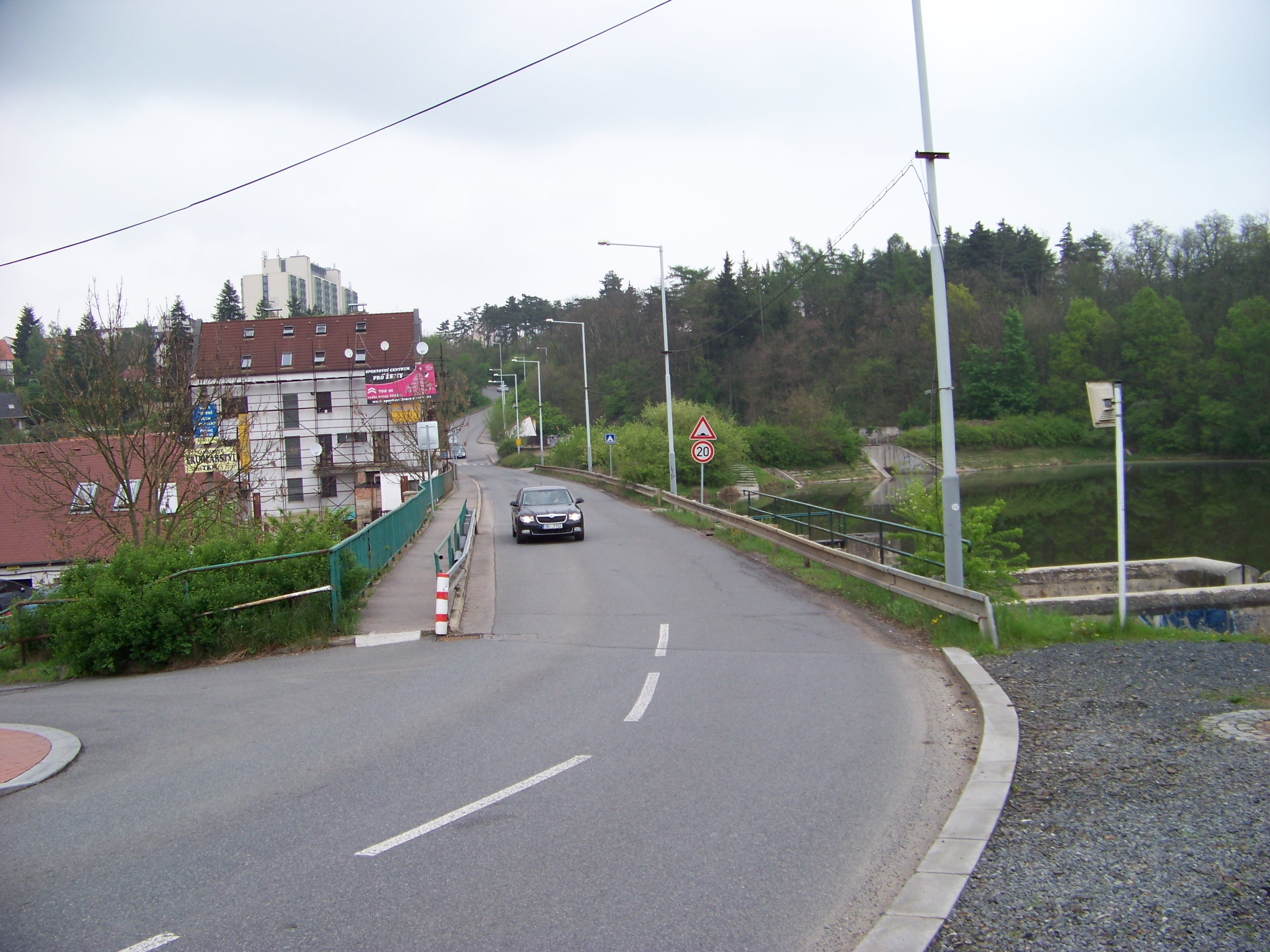 Prague-Kunratice, Czech Republic. K Verneráku street, Hornomlýnský rybník. - Google Maps - Google Earth